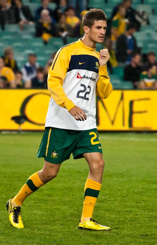 Dario Vidosic representing the Australian national football team against Paraguay at the Sydney Football Stadium.